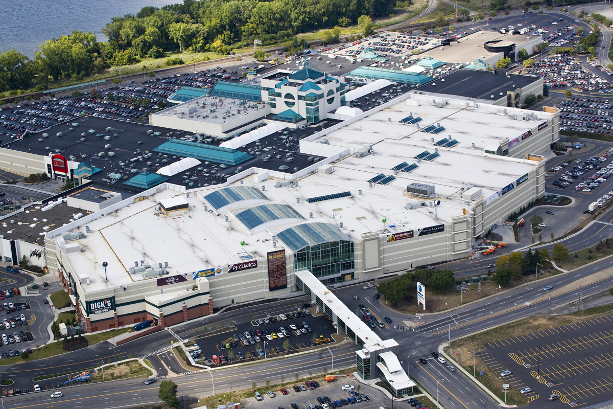 Aerial view of Destiny USA, Syracuse, New York